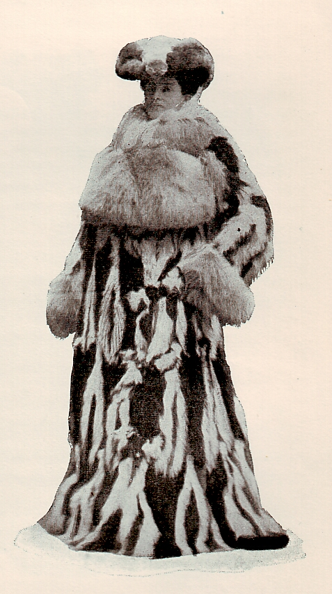 Skunk fur coat, collar probably lynx